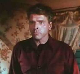 Screenshot of Burt Lancaster from the trailer for the film Vengeance Valley